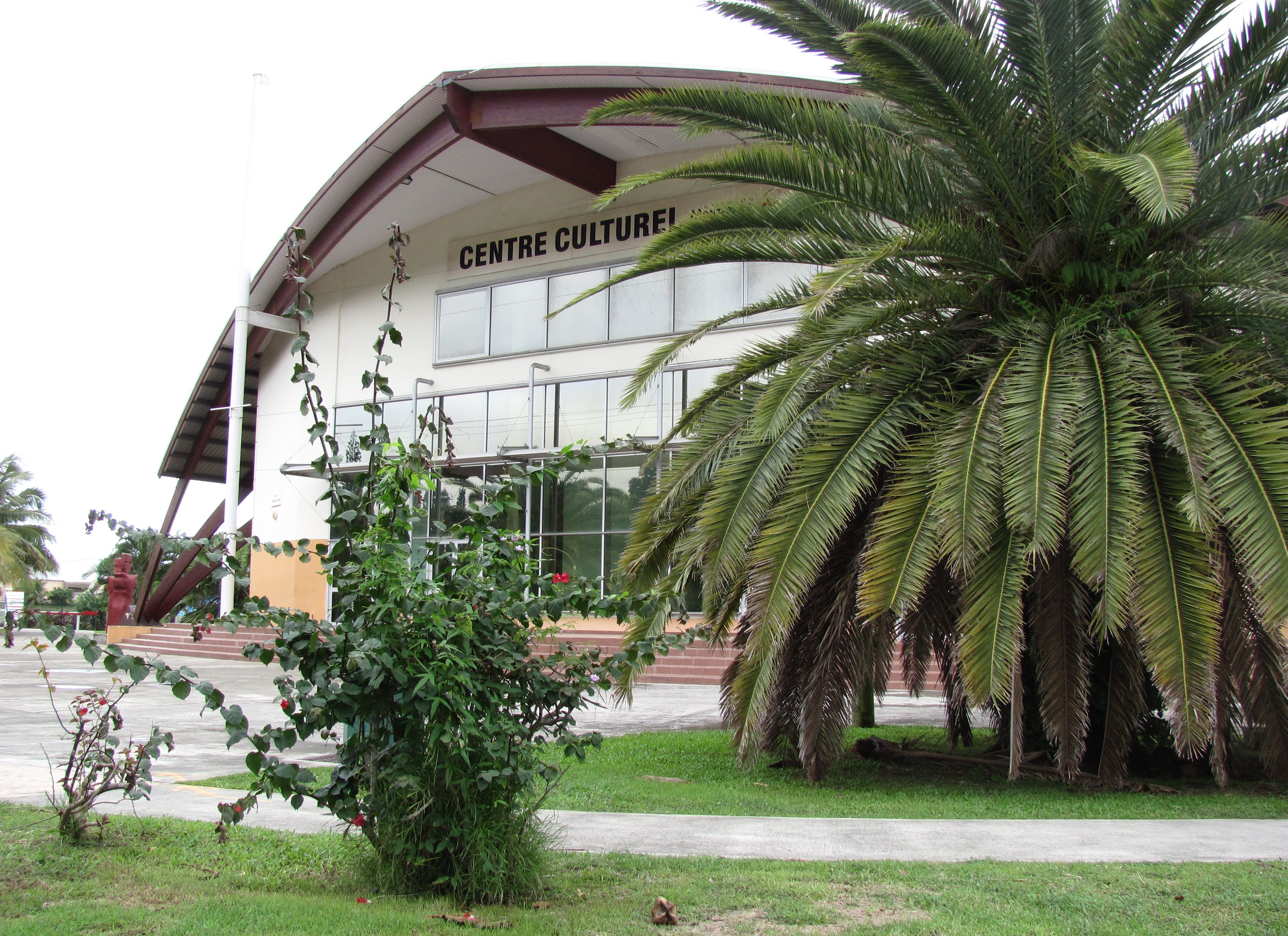 Cultural centre, Le Mont-Dore, New Caledonia